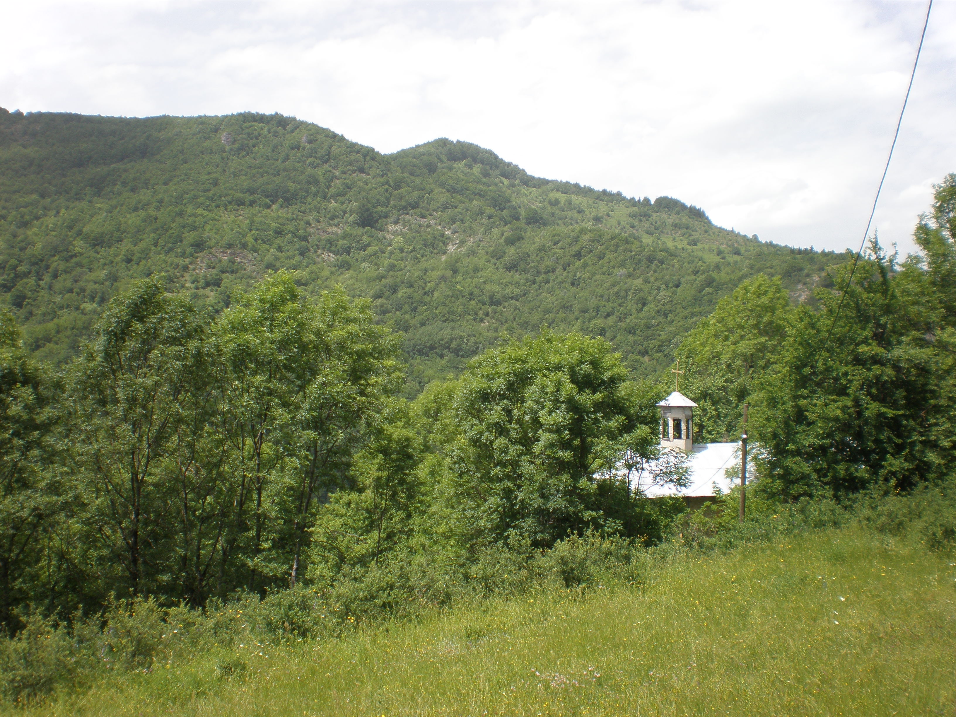 Church of Saint Demetrius, village of Volkovija, Macedonia